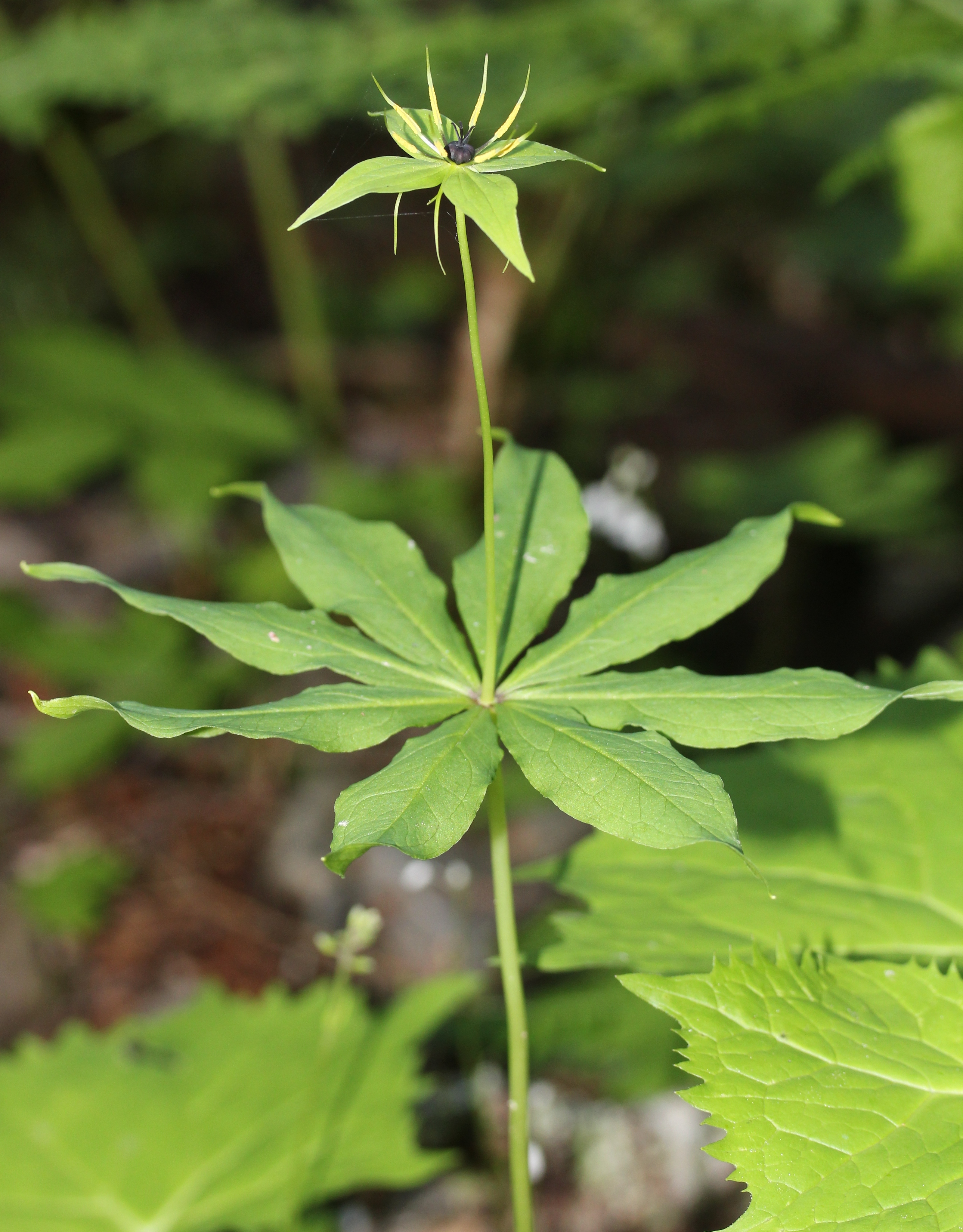 Paris verticillata in Mount Chō, Hida Mountains, Azumino, Nagano prefecture, Japan.